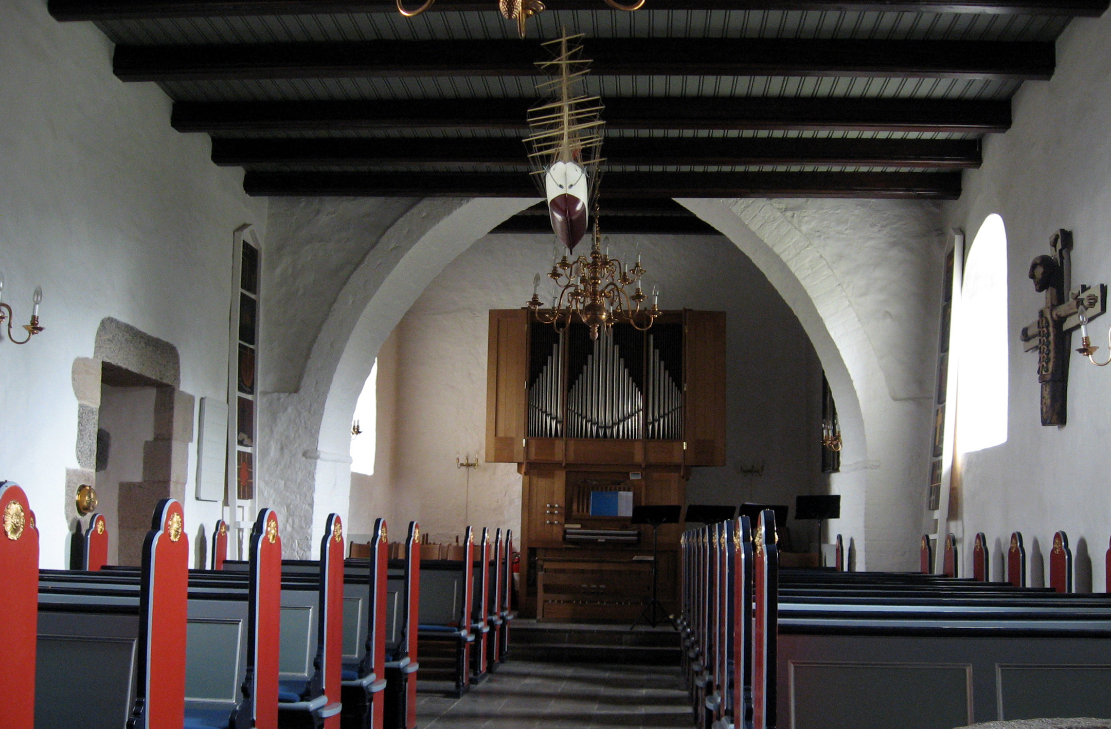 Hasle Kirke in Hasle, Århus, Denmark. View of the interior towards west.